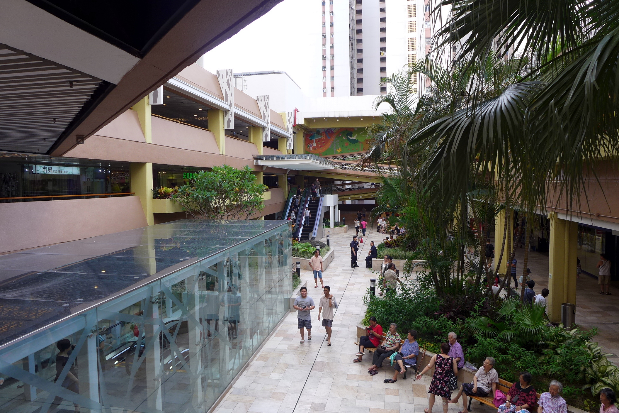 Choi Wan Estate Shopping Centre Atrium